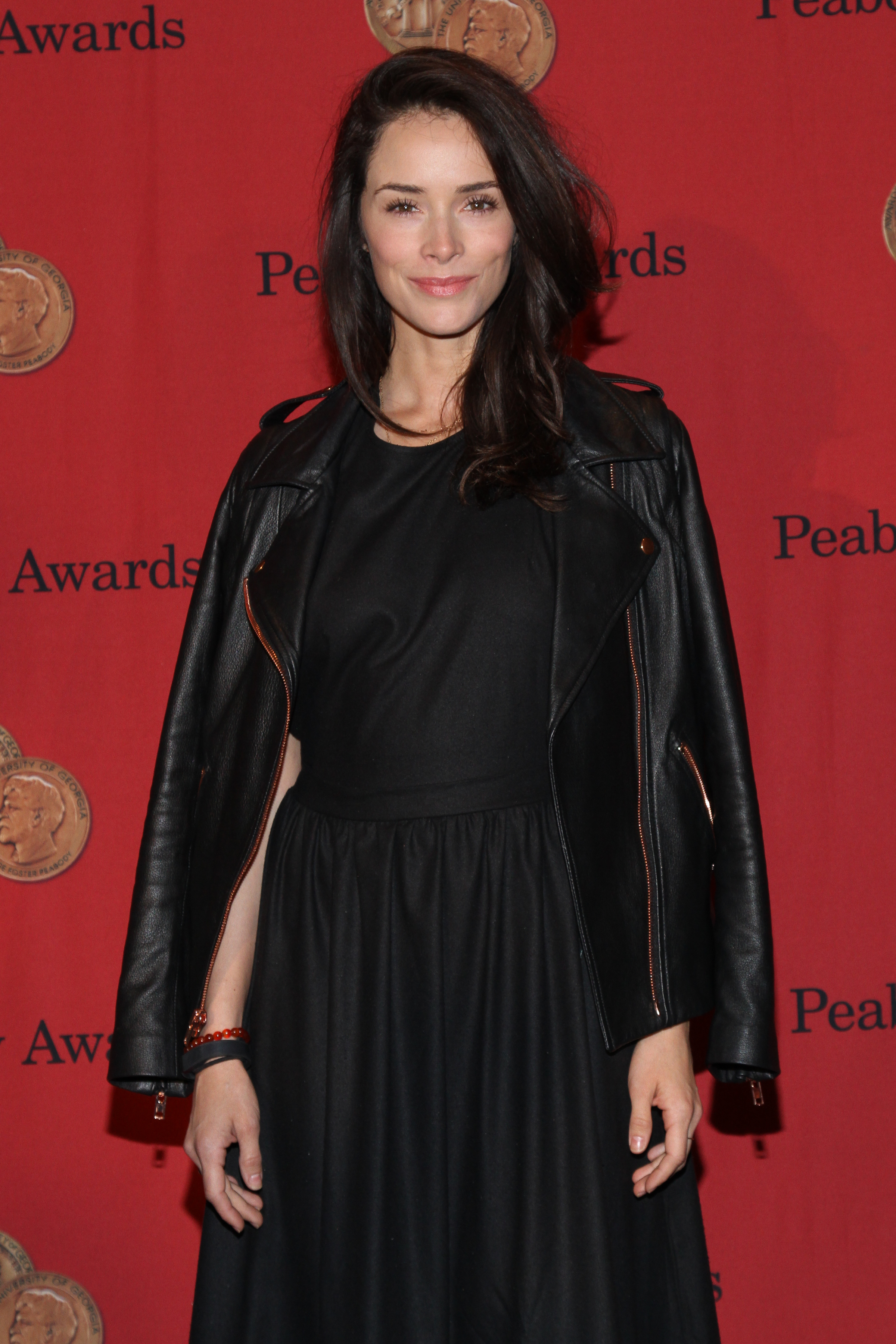 Abigail Spencer attends the 73rd Annual Peabody Awards